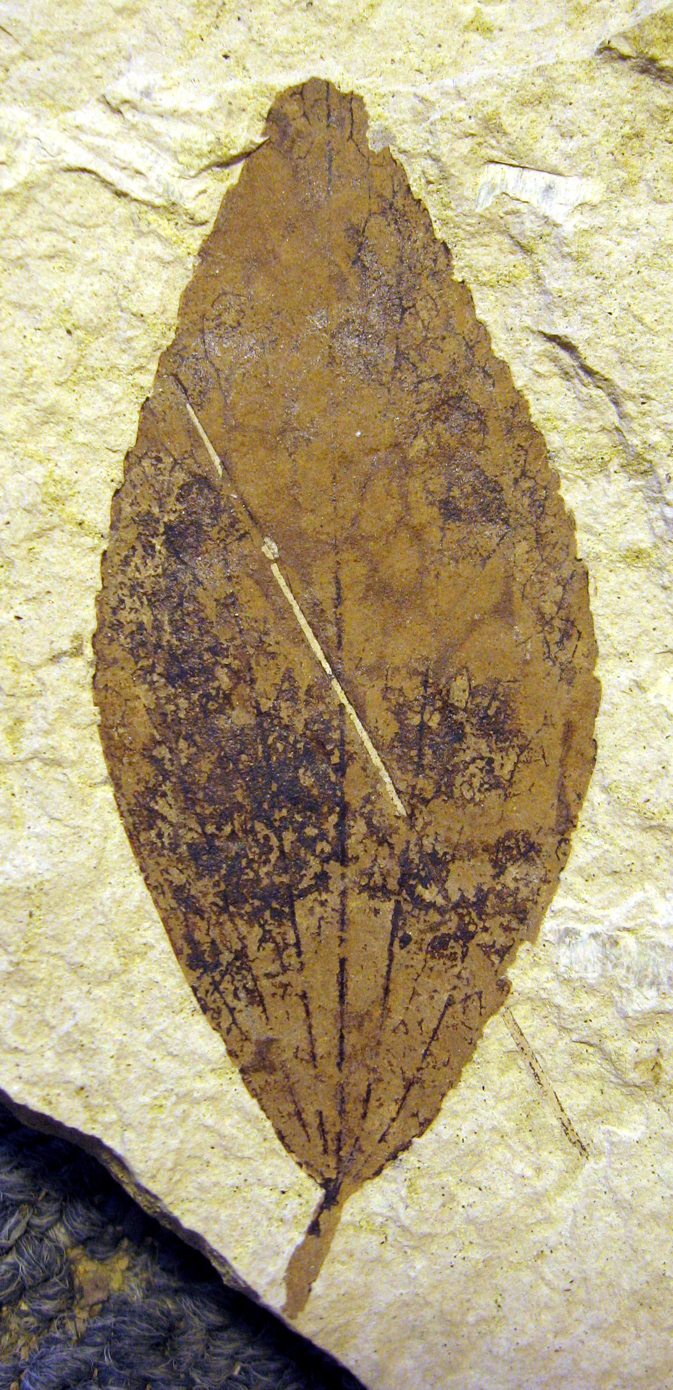 Trochodendron nastae Holotype. A 7.8cm leaf. Klondike Mountain Formation, Republic, Ferry County, Washington, USA, Eocene, Ypresian, 49million years old. Stonerose Interpretive Center Collection # SR 98-02-01 A